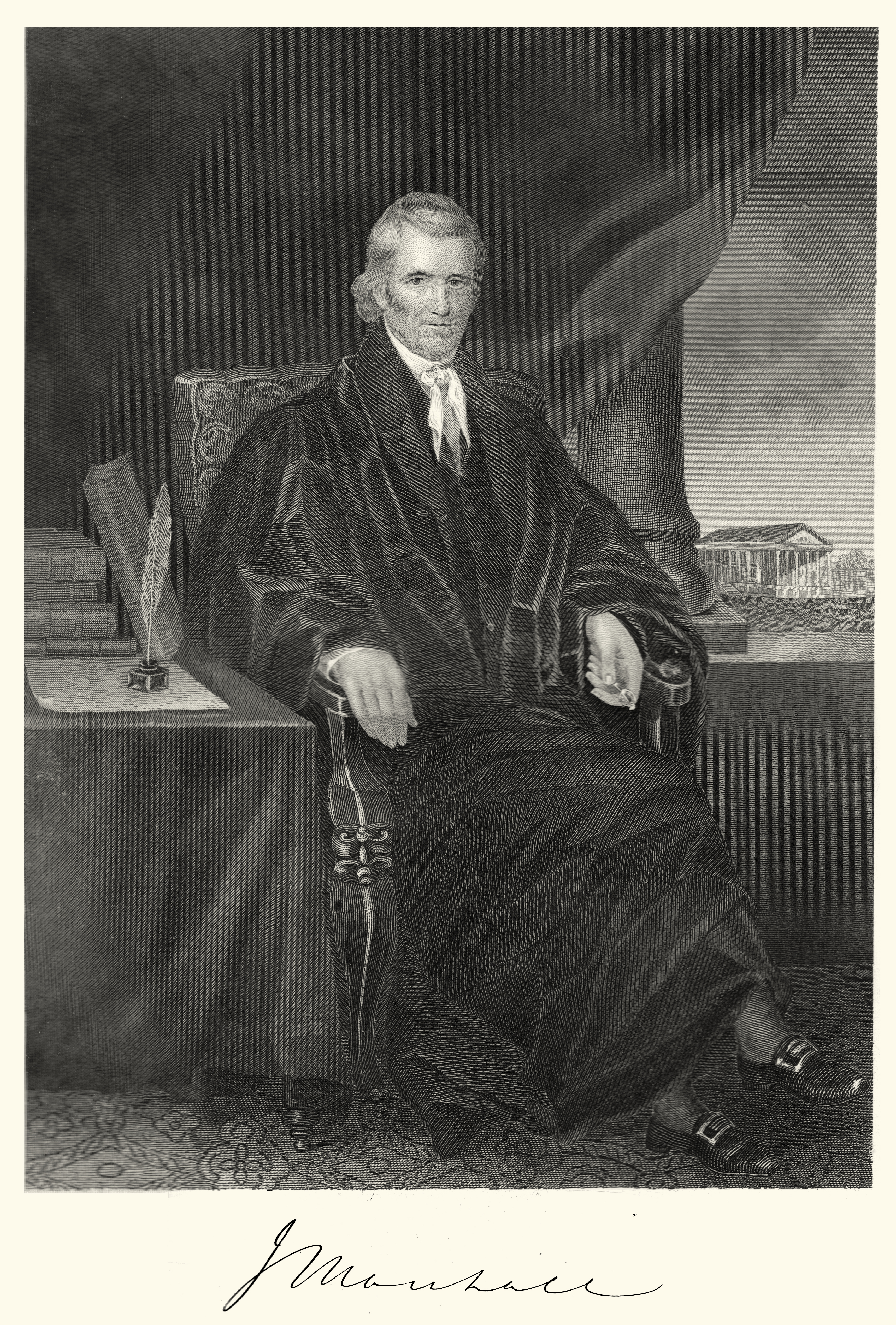 Portrait of Chief Justice John Marshall (Steel engraving with signature)